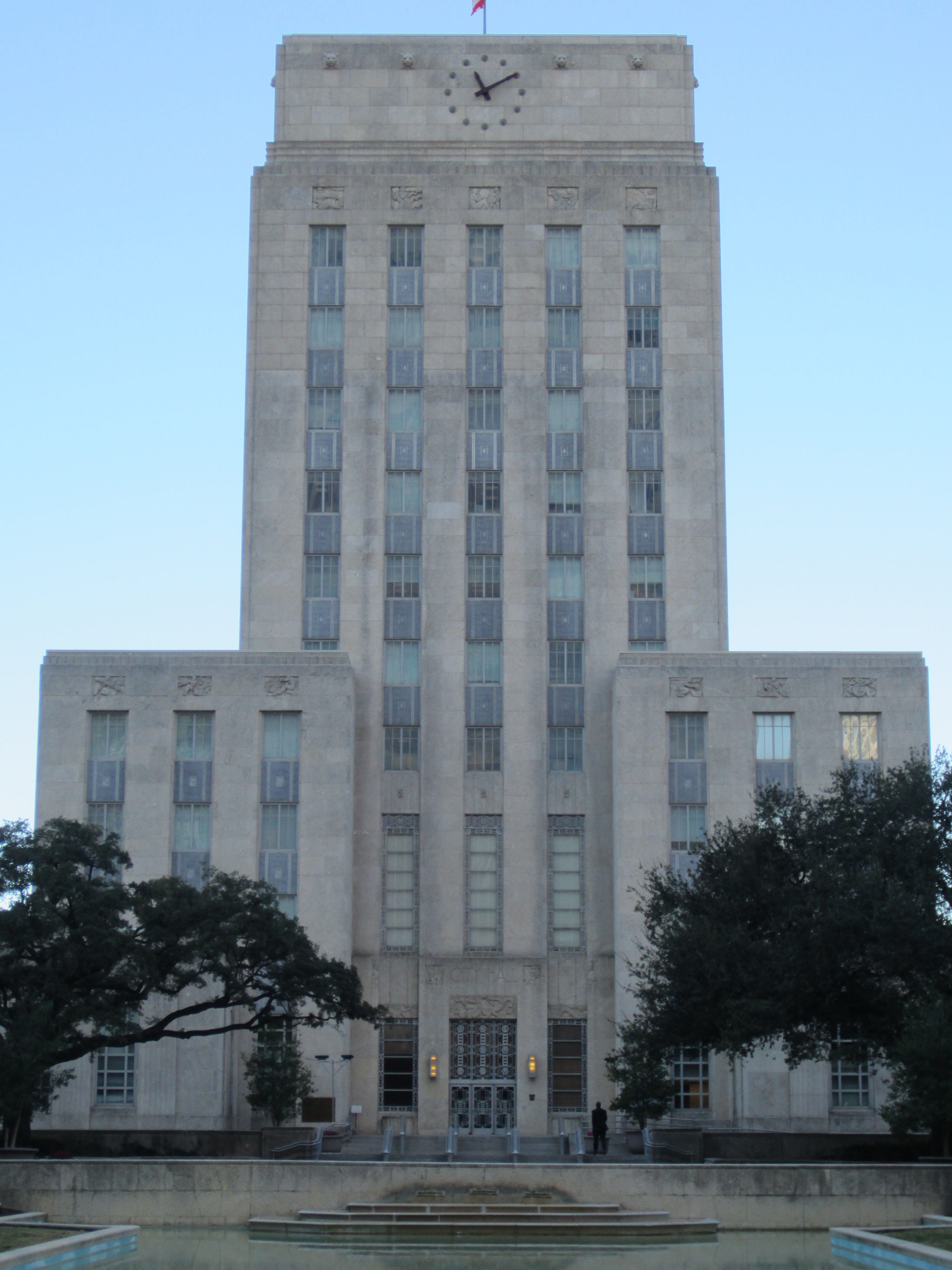 Houston City Hall in January 2012